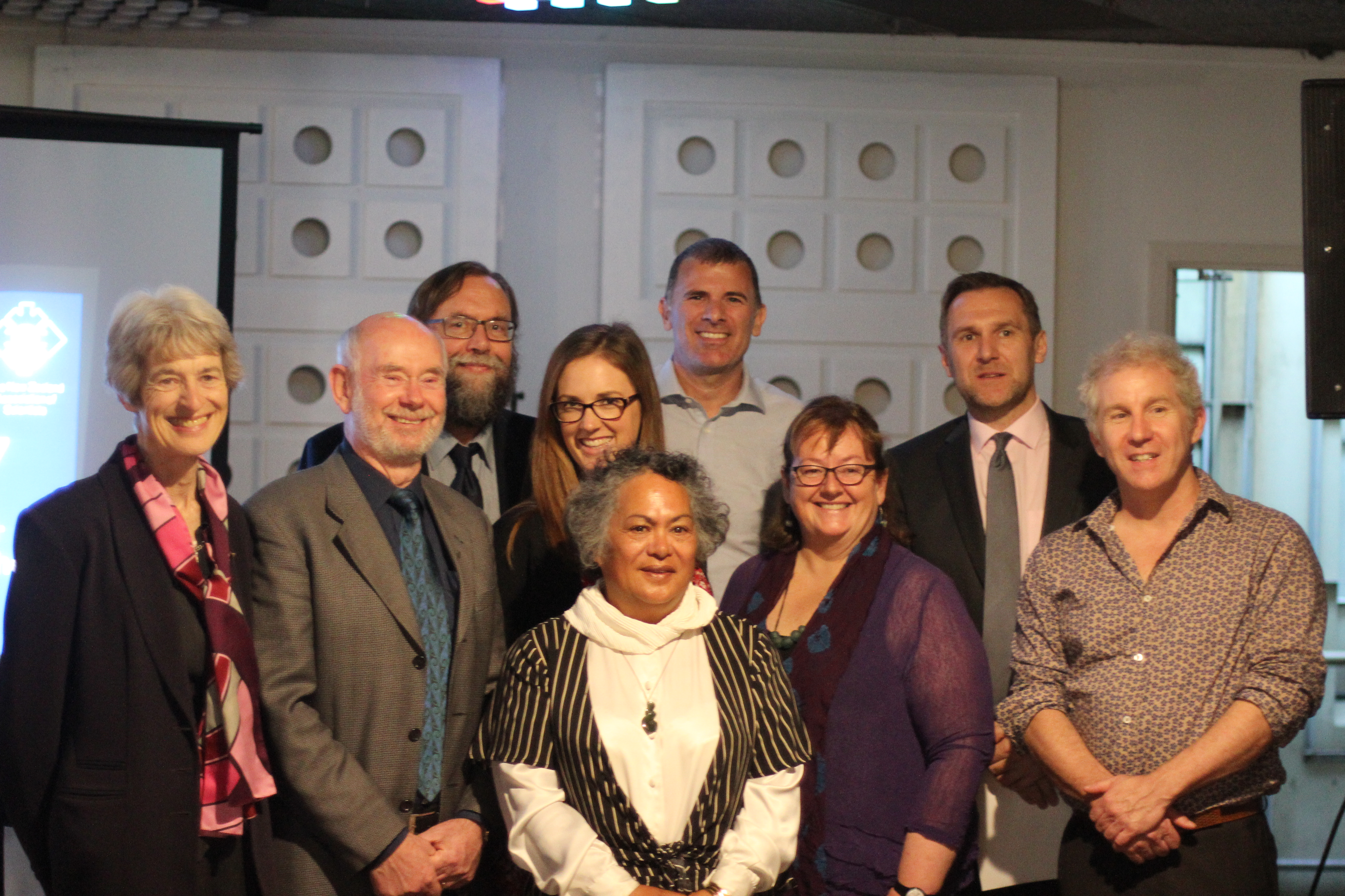 New Zealand Association of Scientists prize giving 1 November 2017